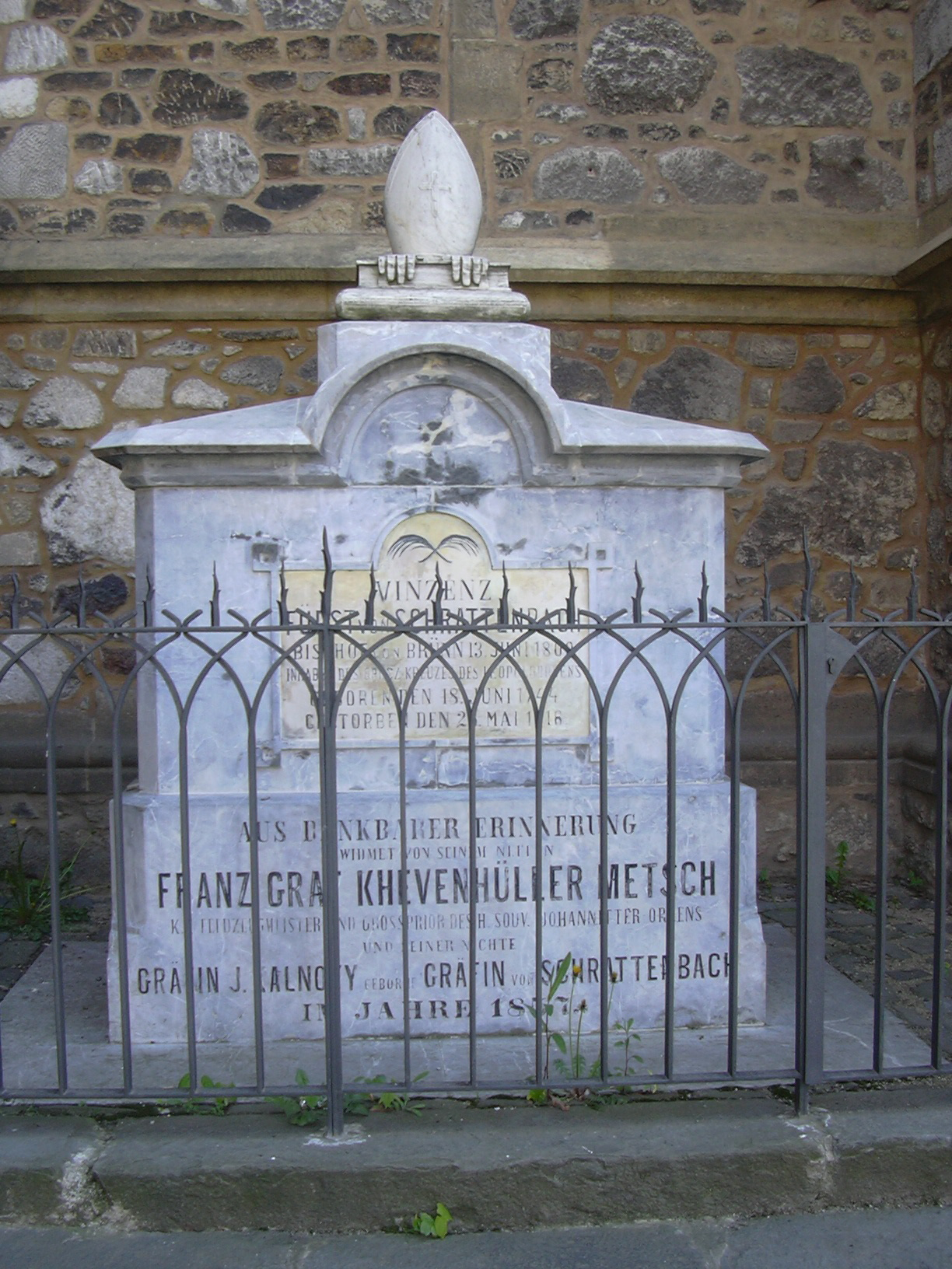 Tombstone of Vincenc Josef Schrattenbach - bishop of Brno at Cathedral of St. Peter and St. Paul (so-called Petrov) in Brno, Czech Republic